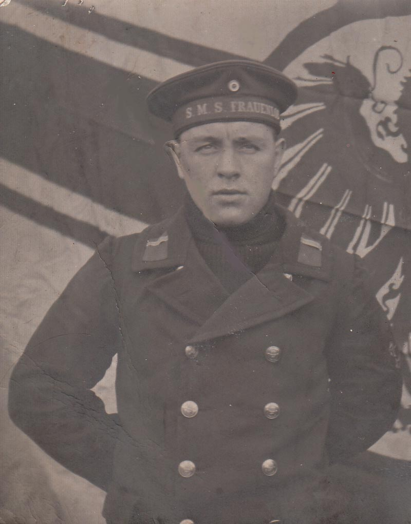 Anton Schmitt, Bootsmannsmaat of the Imperial German Navy aboard the light cruiser "His Majesty's Ship Frauenlob".